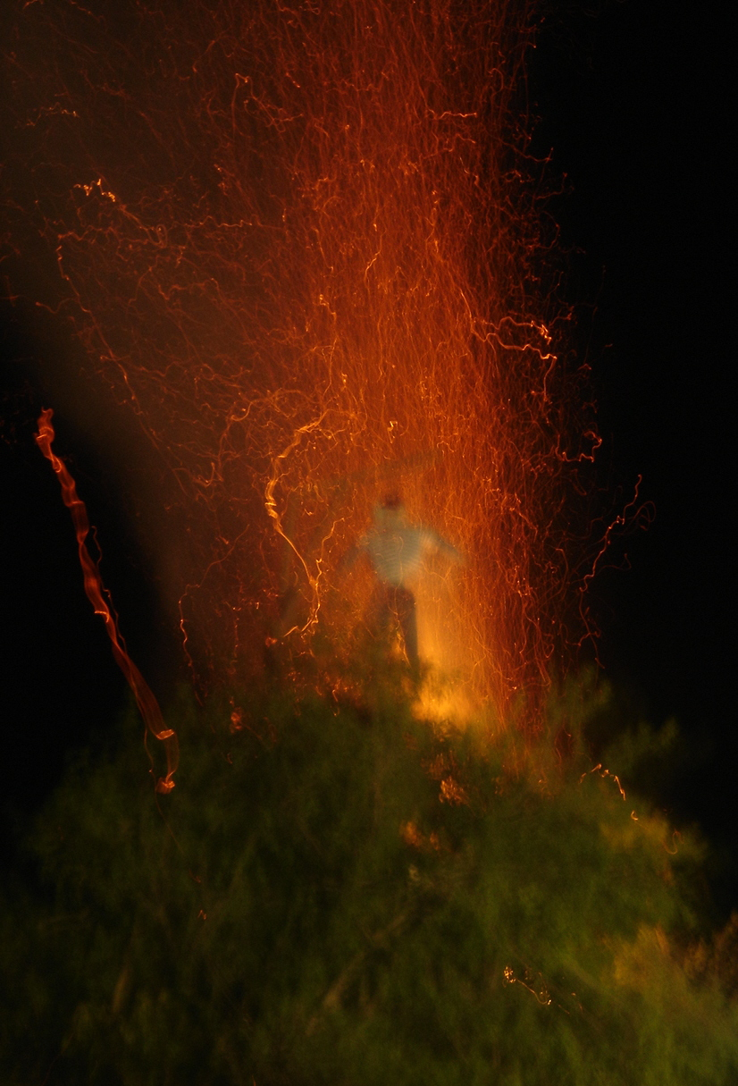 Ovrios, the tradition of burning the Jude (who betrayed Jesus Christ), in Kondariotissa.